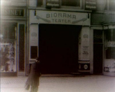 Screenshot from the 1907 film Københavnerbilleder (Pictures of Copenhagen) directed by Peter Elfelt. The cinema Biorama Teater on Østerbrogade at Trianglen in Østerbro.